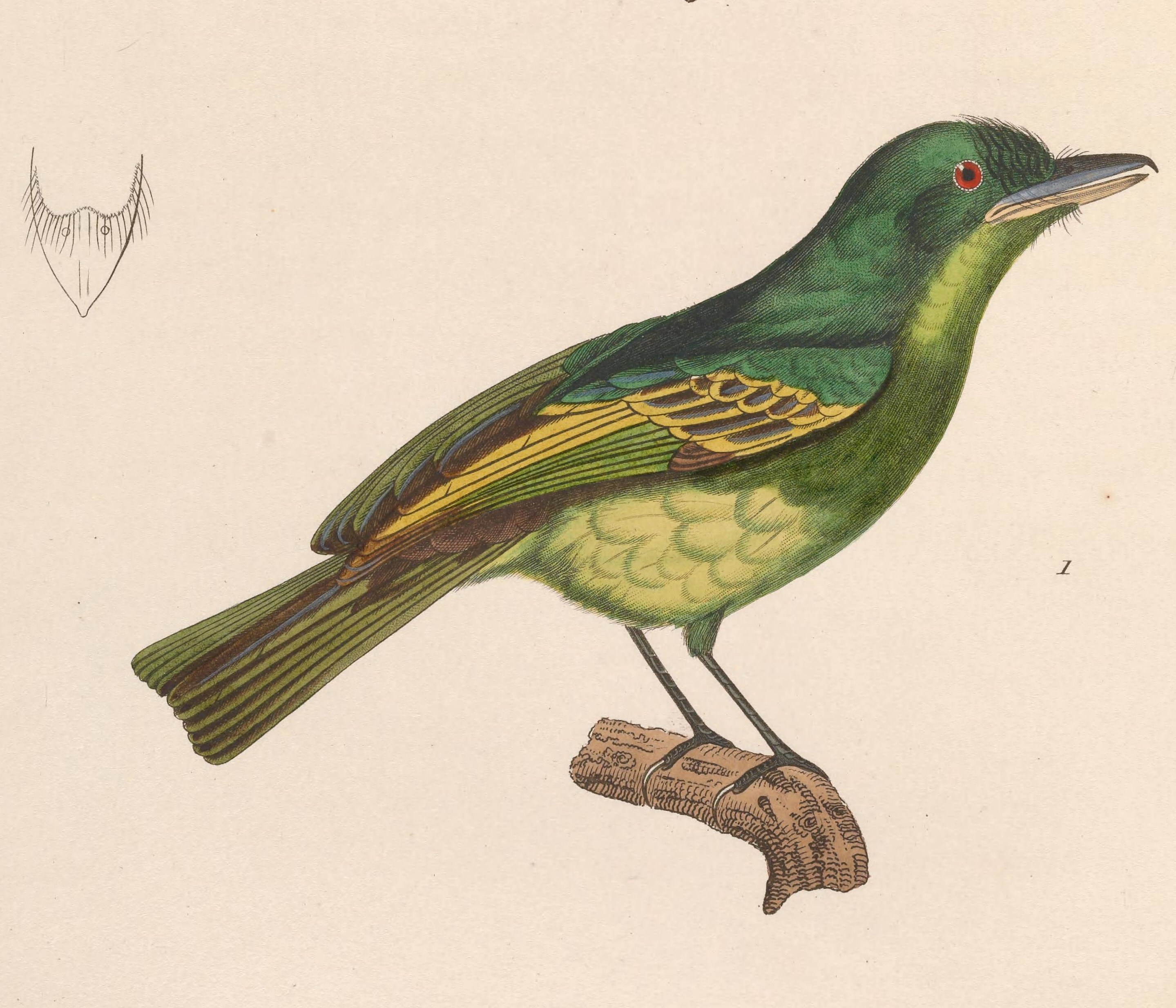 « Platyrhynchos olivaceus » = Rhynchocyclus olivaceus (Olivaceous Flatbill)